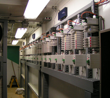 This is a cropped version of PACs on racks, a personal photo taken at a public facility.